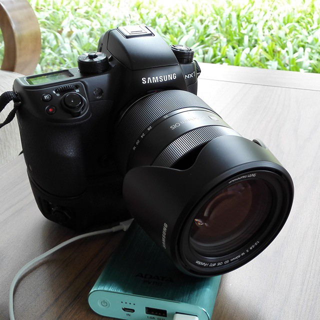 Samsung NX1 with battery grip and 16-50mm f/2-2.8 lens, propped on an Adata device